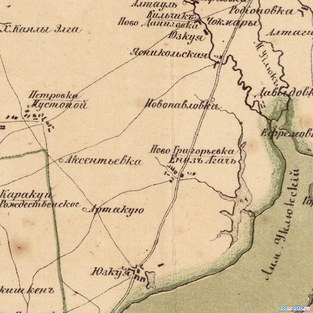 Henichesk Rayon on maps created by Schubert in 1859